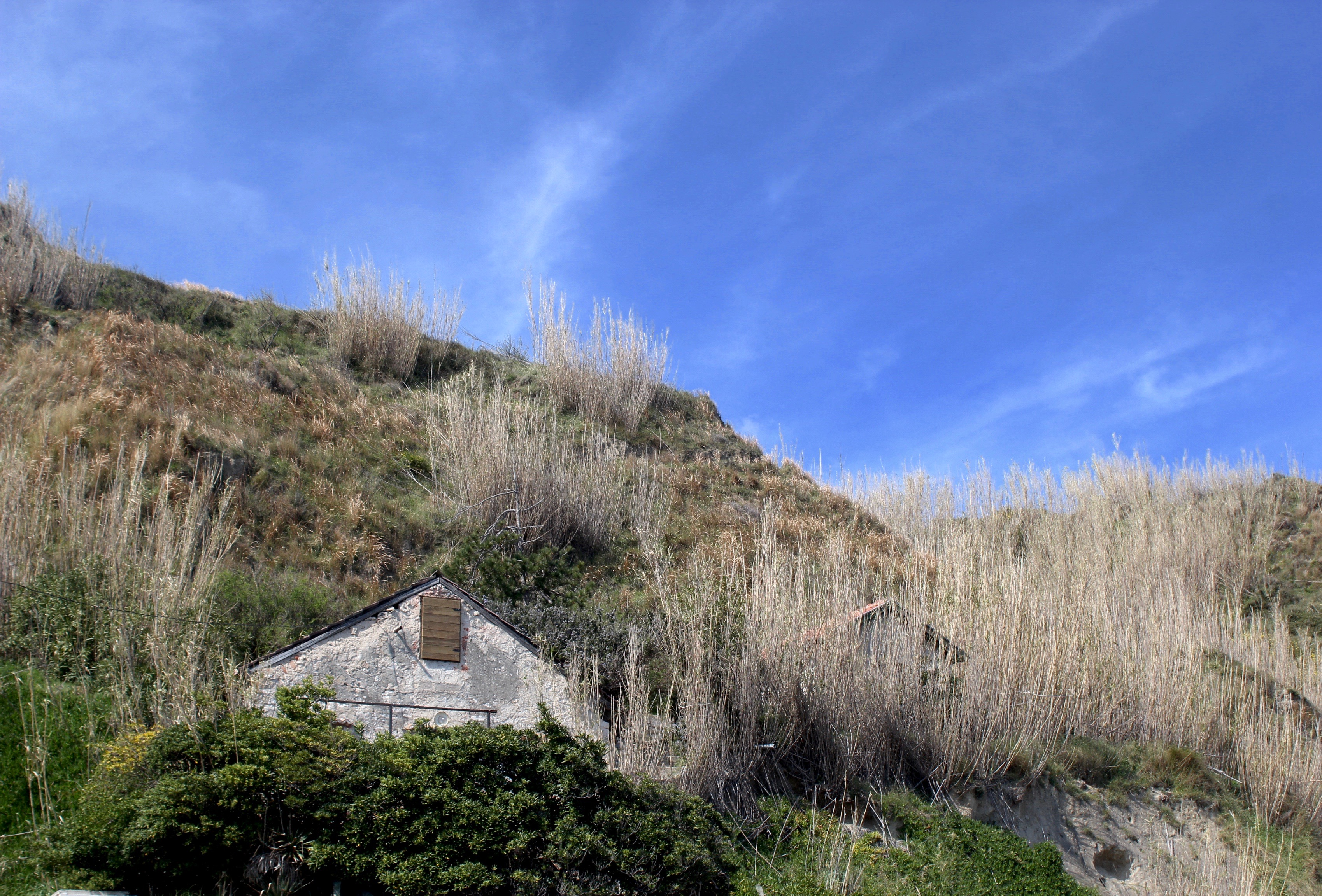 An old stone house embedded in the island's environment